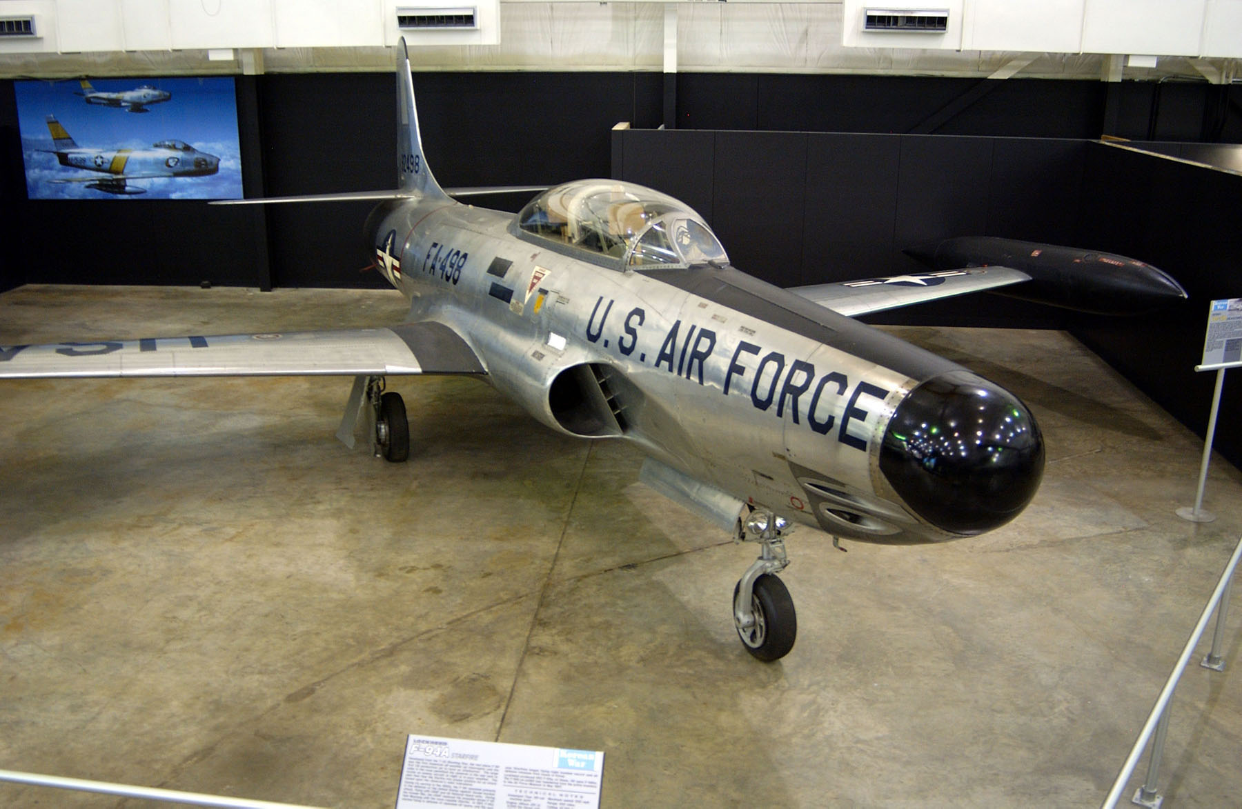 Lockheed F-94A Starfire in the Modern Flight Gallery at the National Museum of the United States Air Force